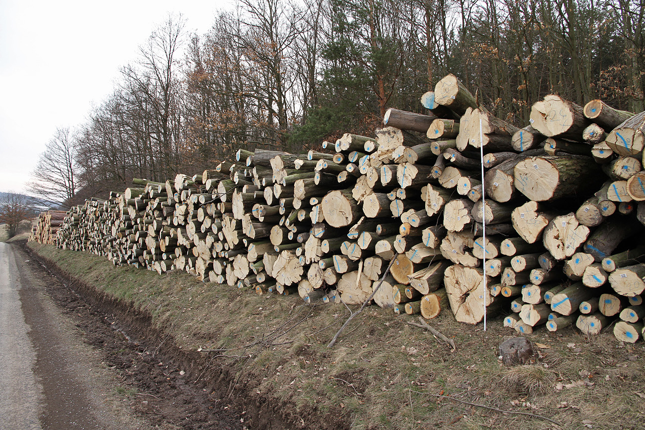 Křivoklátsko - Těžba dřeva V.